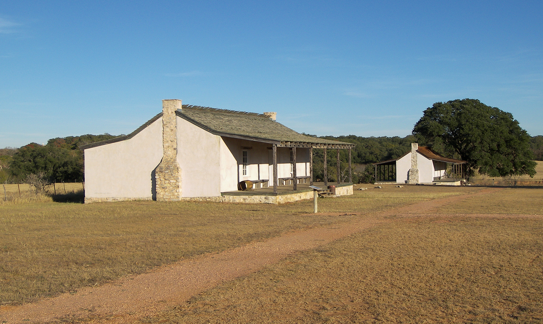 Restored officer quarters Fort Martin Scott located in Gillespie County, Texas, United States. The site was listed on the National Register of Historic Places on January 20, 1980.